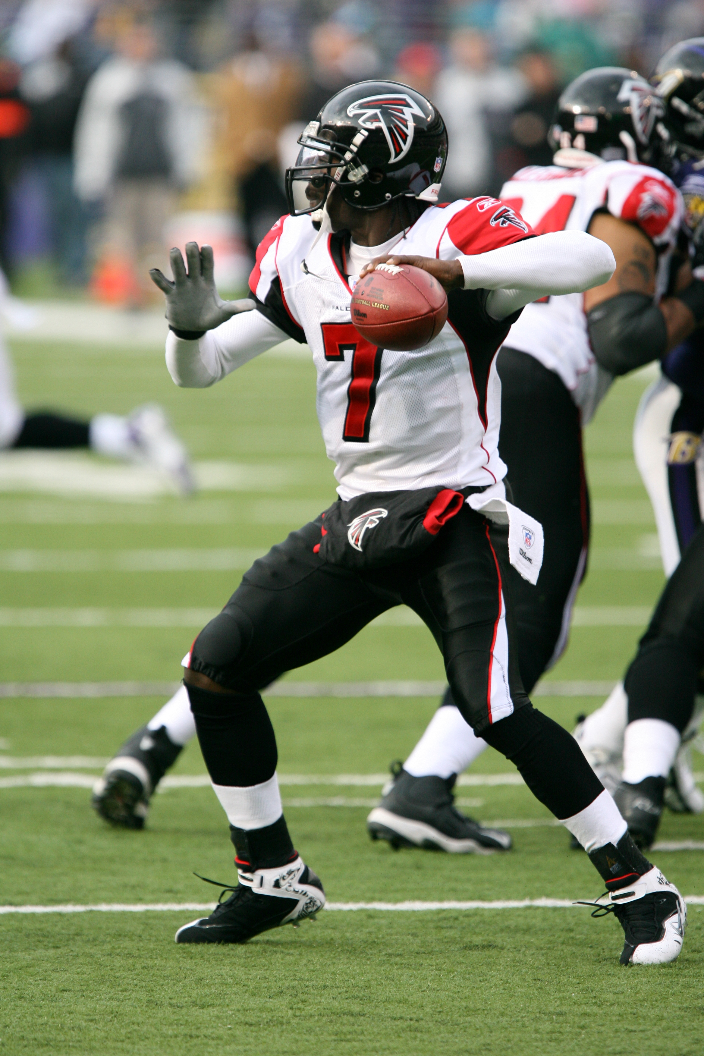 Michael Vick about to pass.